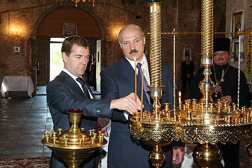 BREST, BELARUS. Inside the St Nicholas Garrison Cathedral at the Brest Hero-Fortress Memorial Complex, the Russian and Belarusian Presidents, Dmitry Medvedev and Alexander Lukashenko, lit candles before the icon of St Nicholas the Miracle Worker for the peaceful rest of the fallen defenders of the fortress.